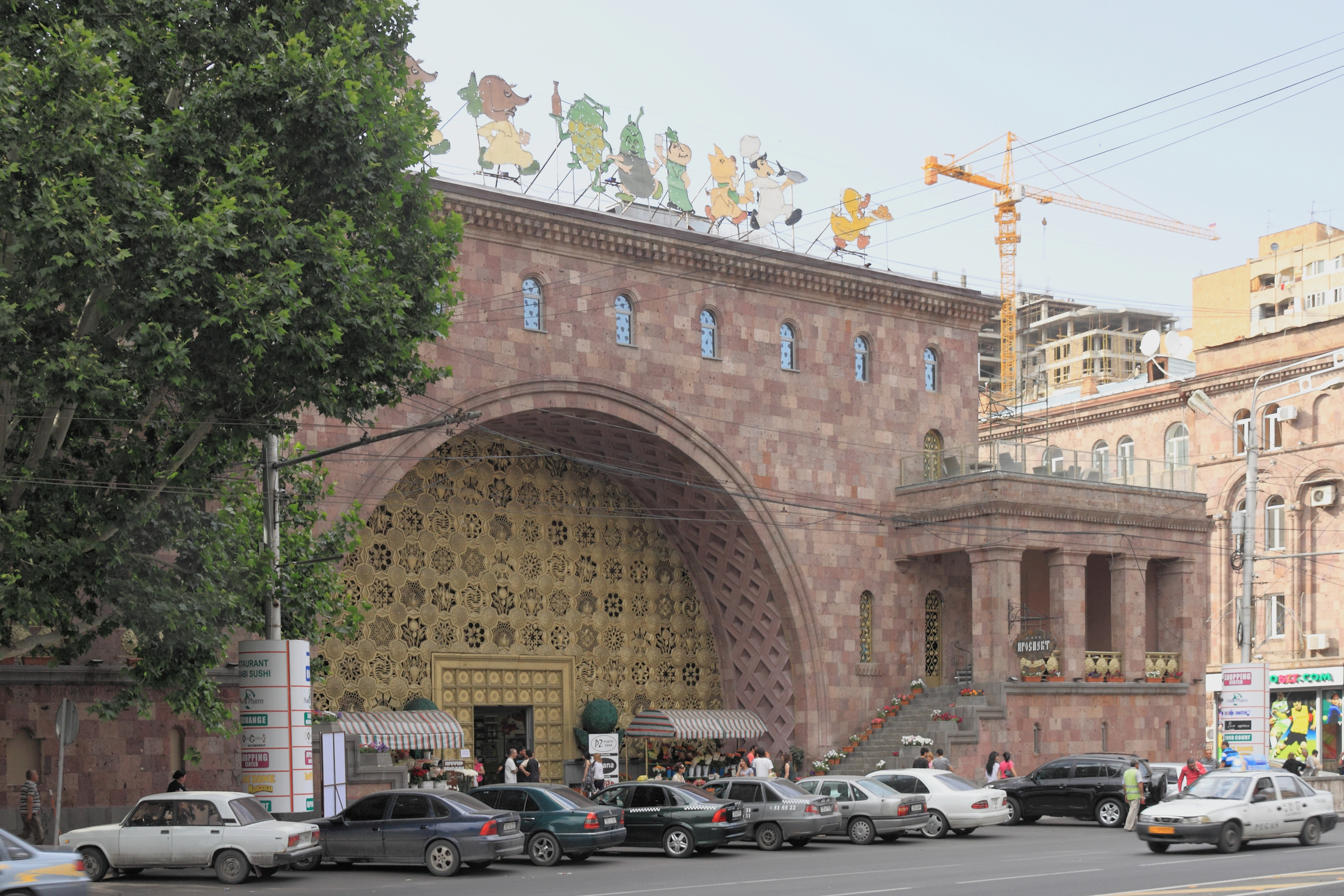 Central Covered Market. Yerevan, Armenia.